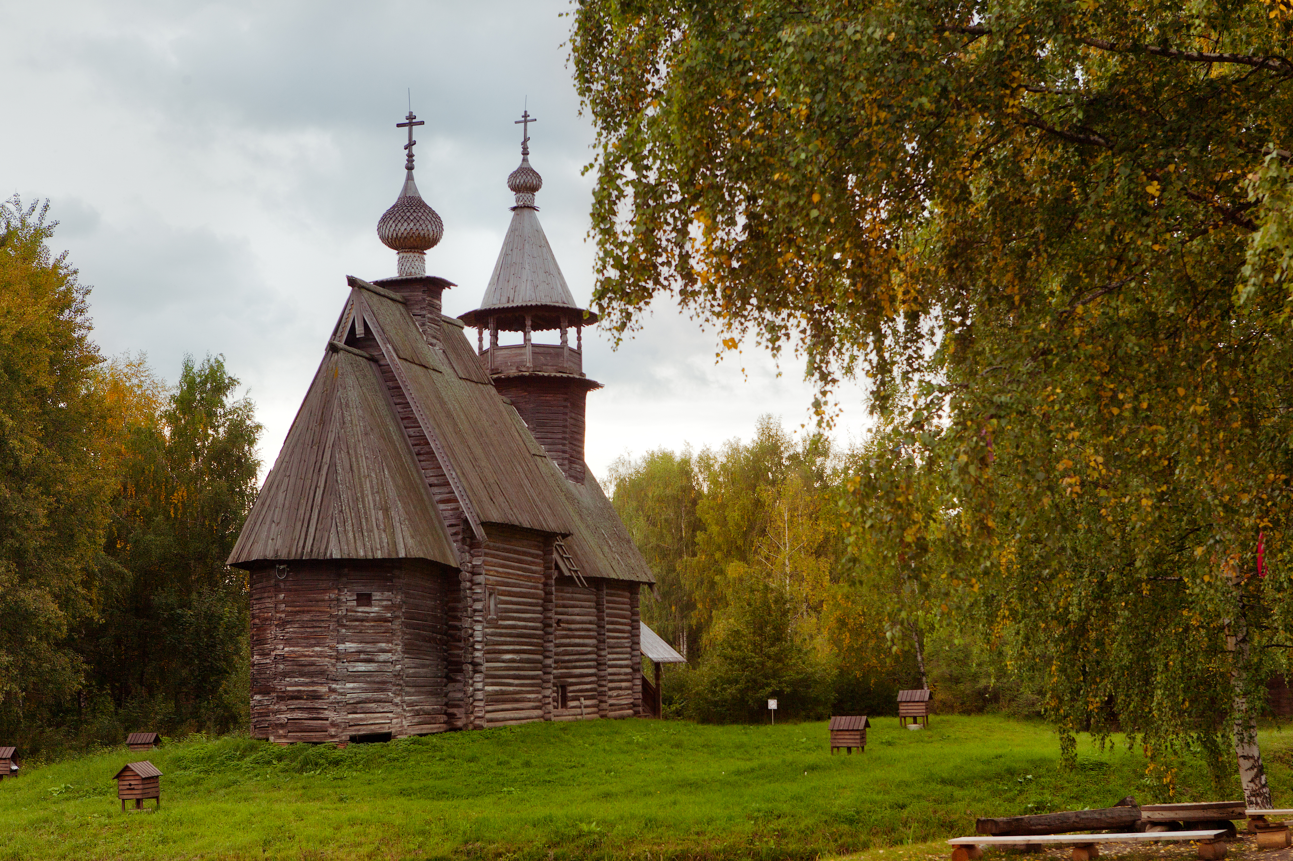 Wooden church of Christ the Saviour from Fominskoe, 1712. Kostromskaya sloboda open air museum, Kostroma, Russian Federation